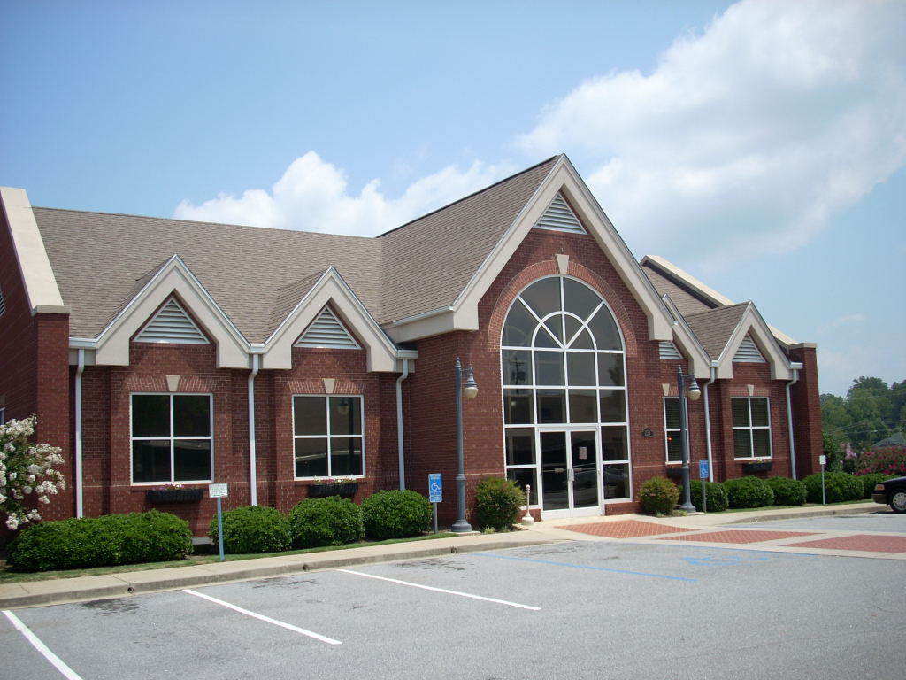 Seneca, South Carolina, new city hall on East North 1st Street